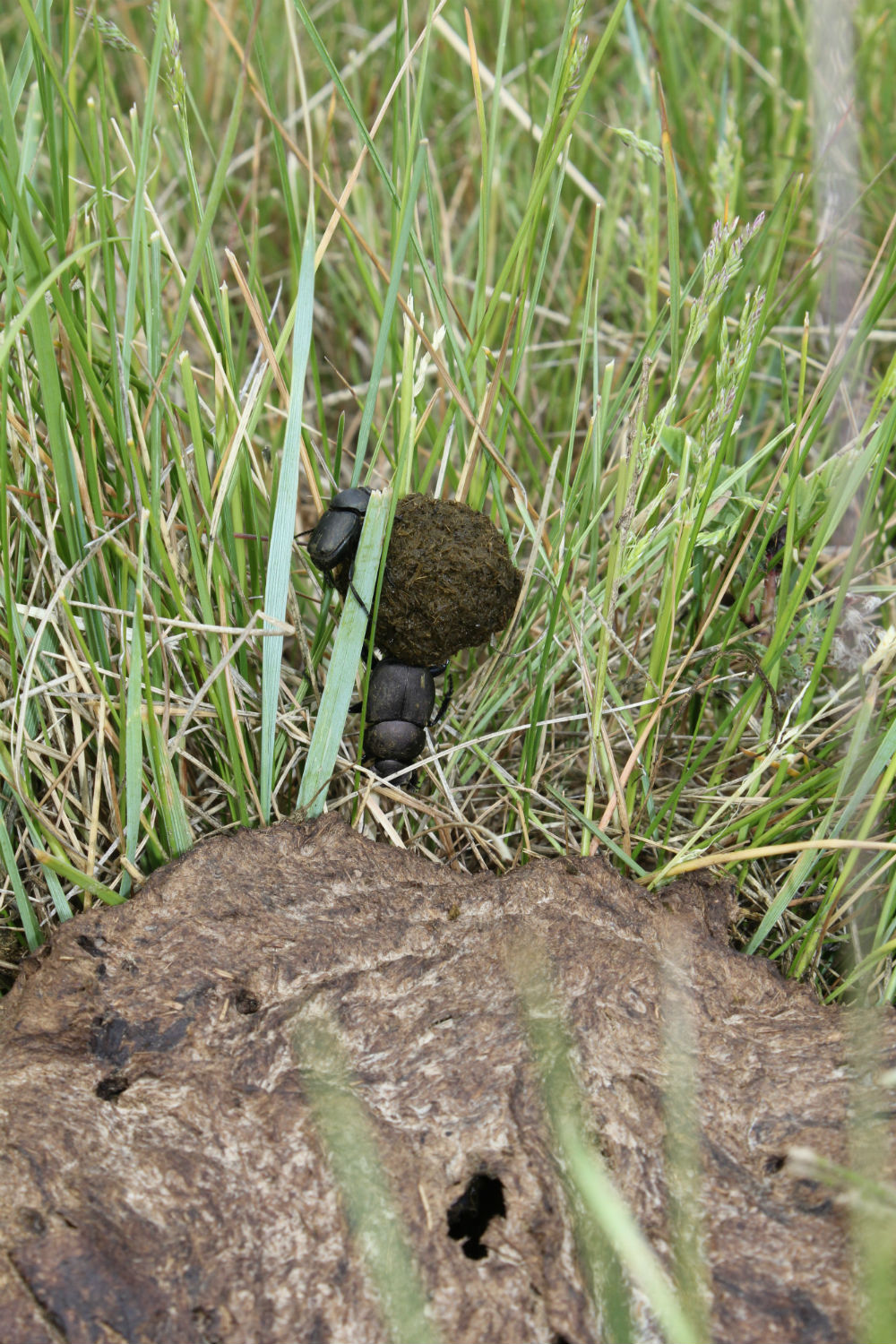 One of the best recyclers on earth is a dung beetle. Dung beetles recycle animal dung such as cow manure by burying it. Buried dung helps loosen and nourish the soil. Here are pictures of “rolling” type dung beetles from War Horse National Wildlife Refuge in central Montana. Credit: USFWS Photo Contest Entry #178